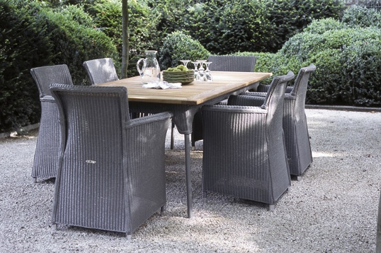 Lloyd Loom chair from Vincent Sheppard outdoor collection